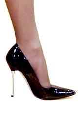 High heel shoe